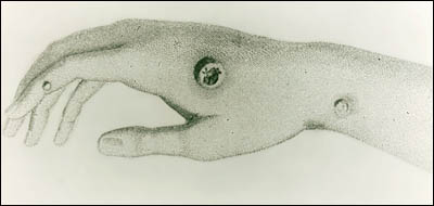 This shows accidental cowpox on the hand of Sarah Nelmes, from whom Jenner vaccinated James Phipps in 1796. Published in his Inquiry, 1798. From the USA NLM of the NLH (who have now, March 2014, removed it to the vaccination page) who do not assert copyright and in general provide pictures under PD. This is a very old image.